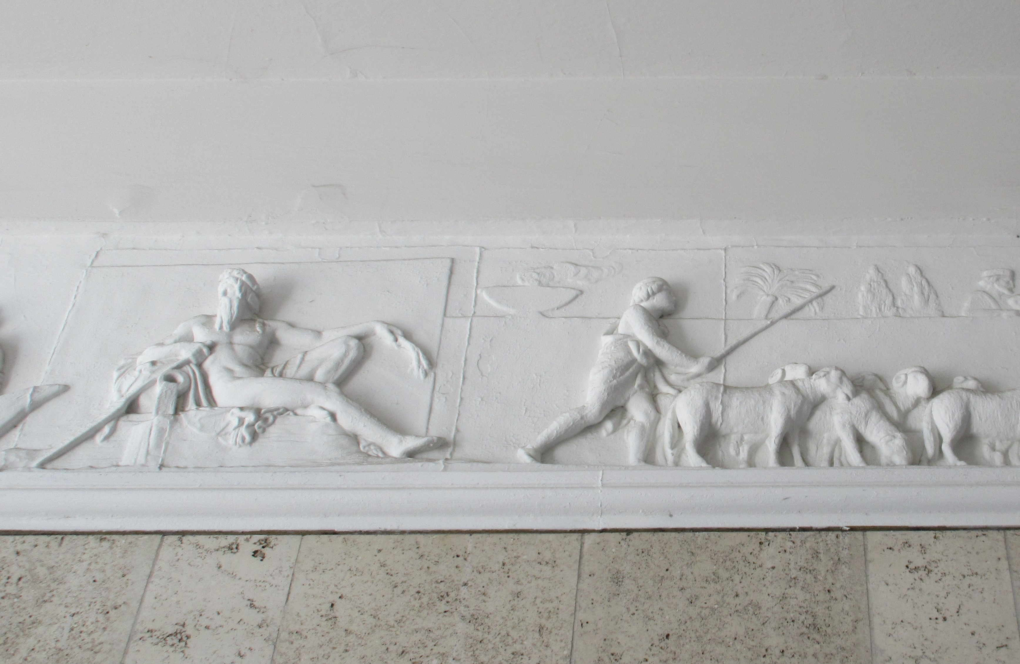 Decorations in the gateway of Frederiksholms Kanal 16 in Copenhagen, Denmark